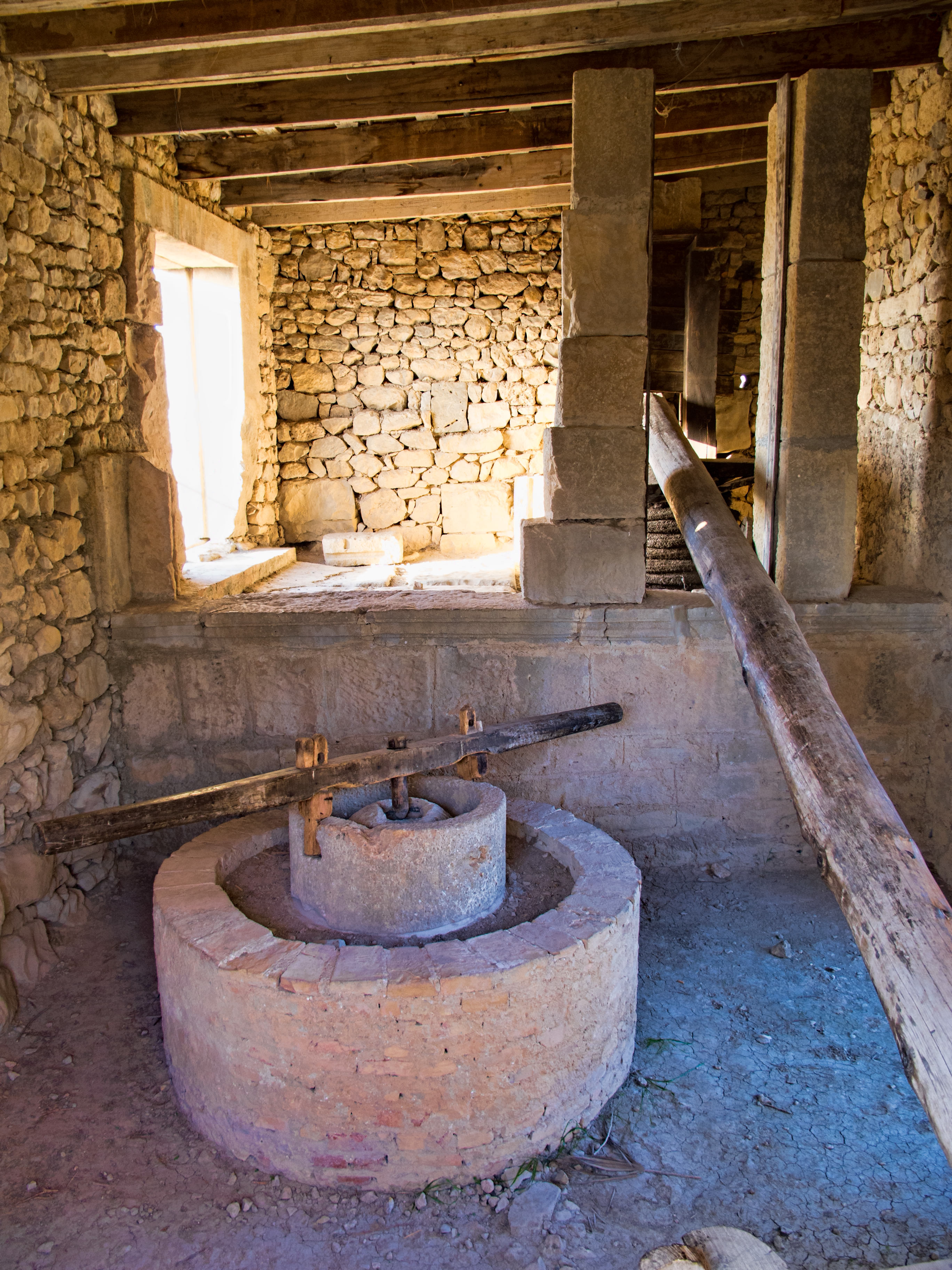 Restored olive presses used to produce olive oil. Located near the confluence of two rivers on a gentle mountain slope overlooking a fertile plain, Volubilis started in the 3rd century BCE as a Phoenician (and then Carthaginian) settlement. Rapid growth ensued under Roman rule from the 1st century CE. Volubilis became the capital of the province of Mauritania (Land of the Moors). The town fell to local tribes around 285 CE. It continued to be inhabited for at least another 700 years. By the 11th century CE Volubilis had been abandoned. The 1755 Lisbon earthquake devastated the remaining ruins. Restoration and reconstruction of the site began after most of Morocco became a French protectorate following the Treaty of Fez in 1912. The Archaeological Site of Volubilis became a UNESCO World Heritage Site in 1997, recognized for being a well-preserved demonstration of urban development and Romanization at the frontiers of the Roman Empire. On Google Earth: Volubilis 34° 4'21.81"N, 5°33'16.26"W